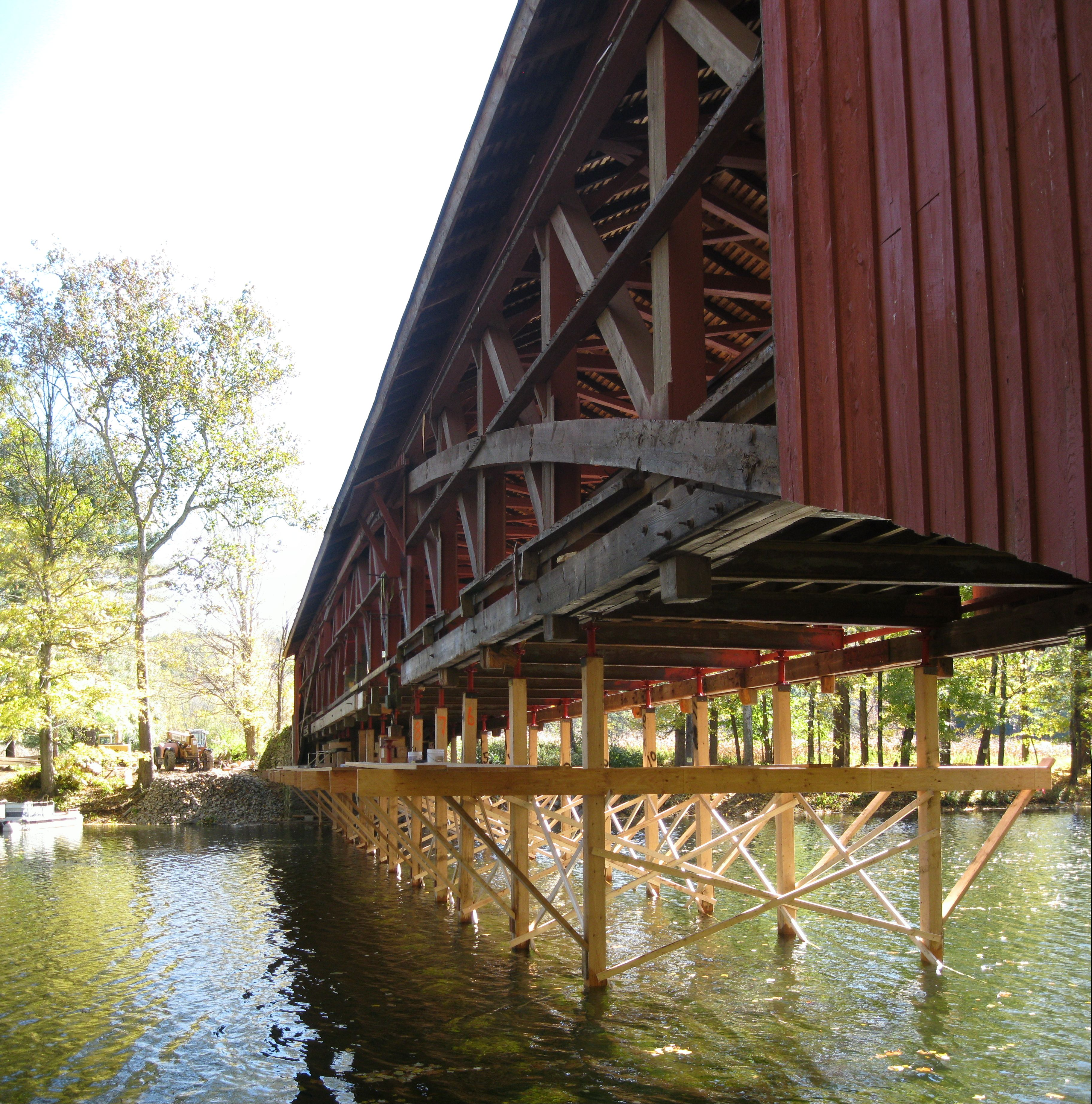 Scaffold supporting the bridge during restoration of Hillsgrove Covered Bridge over Loyalsock Creek in Hillsgrove Township, Sullivan County, Pennsylvania in the United States. Repairing damage caused by September 2011 floods.